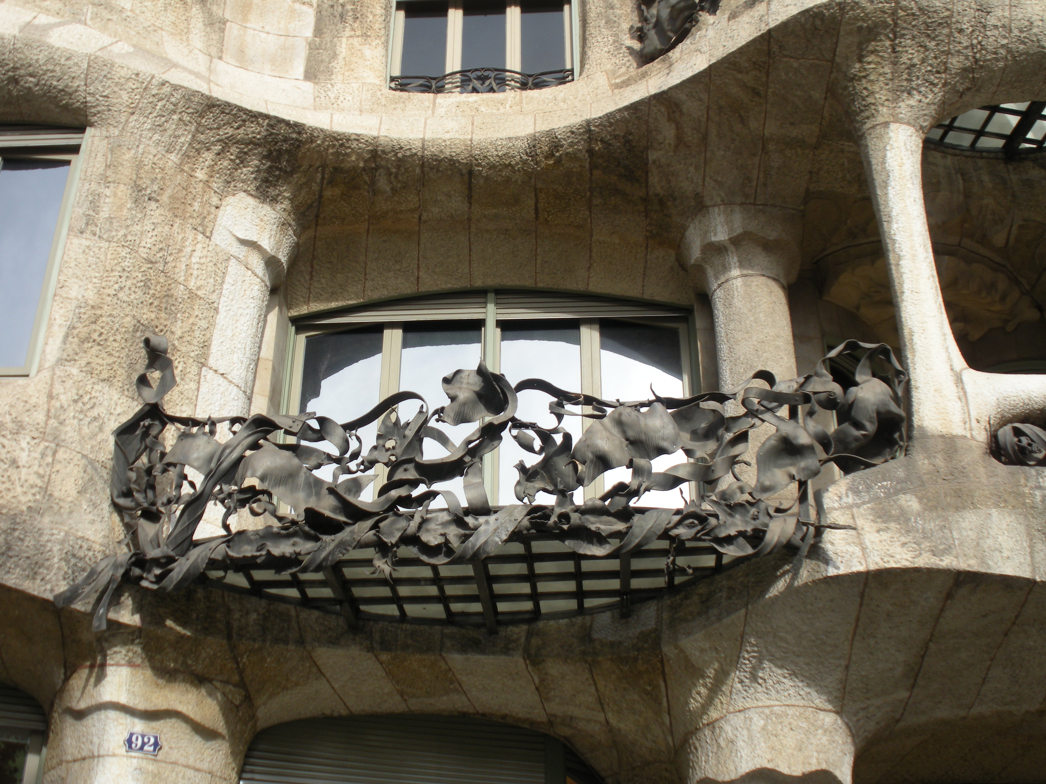 Casa Milà was designed by the Catalan architect Antoni Gaudí and is located in Barcelona, Spain.